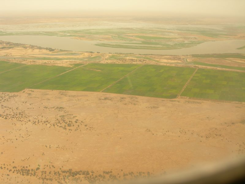 An aerial view of the Inland Niger Delta and surrounding farmlands, Mali